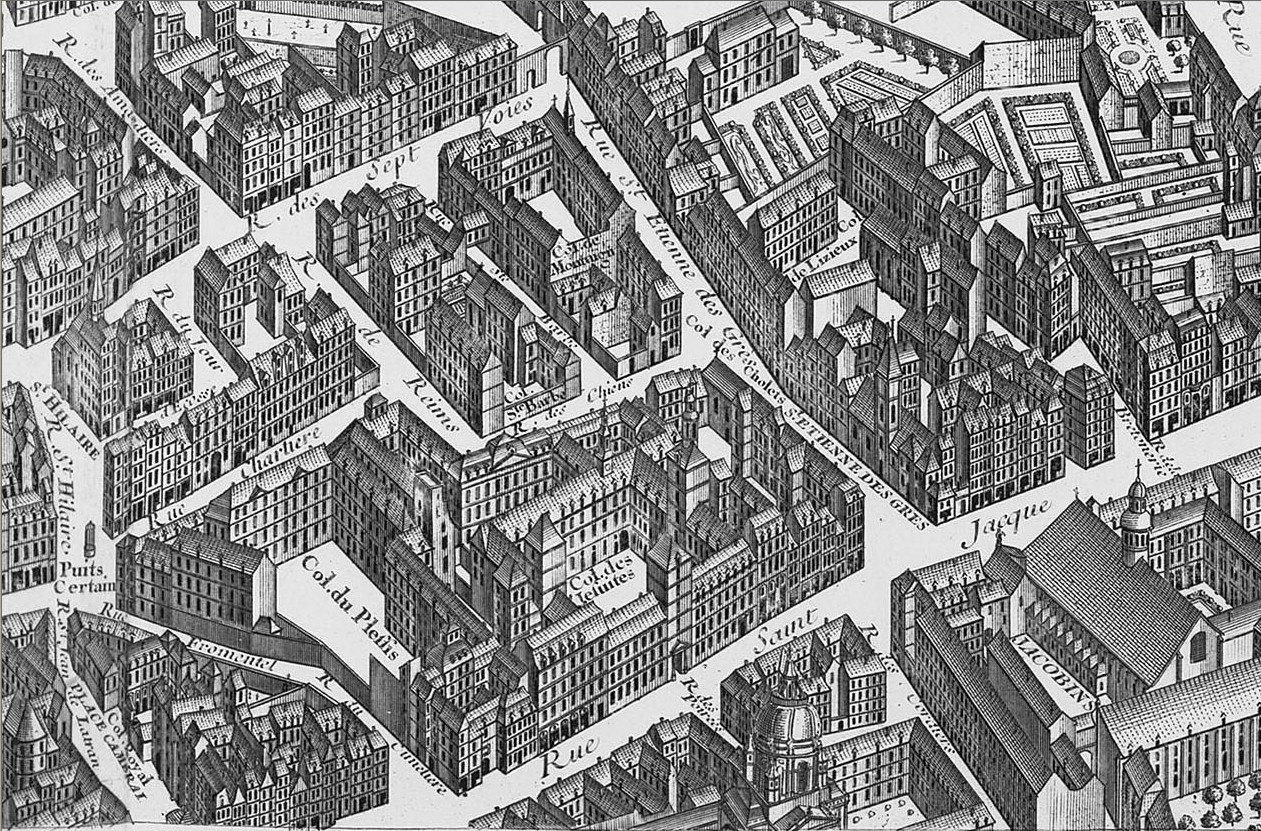 Detail from plate 7 of Turgot's 1739 map of Paris showing the rue saint-Etienne-des-Grès